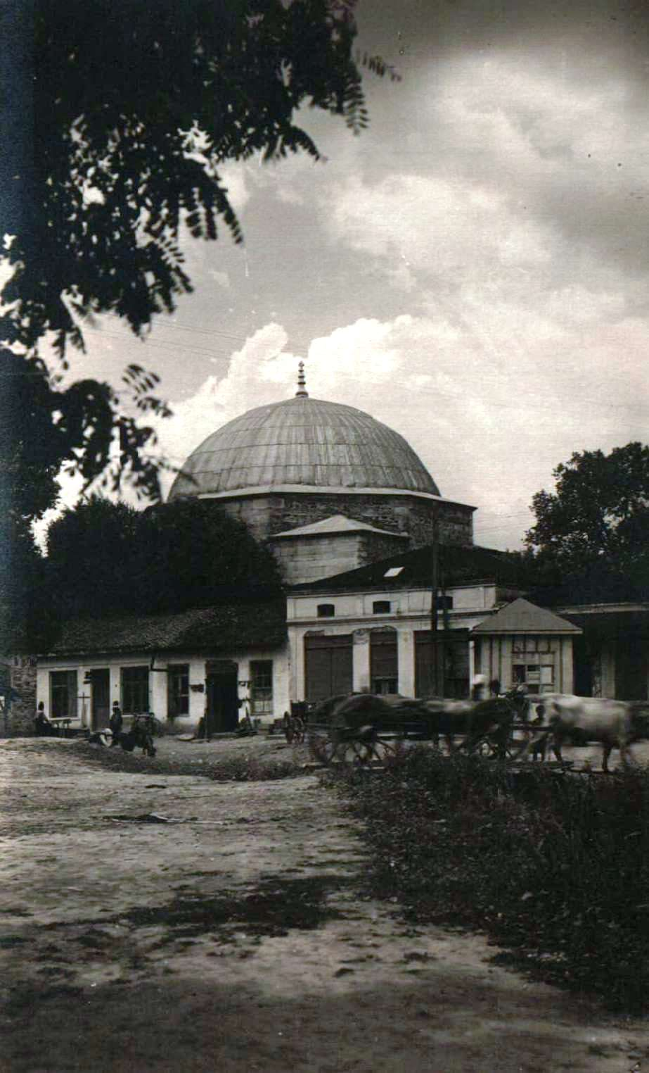 The Mosque in Harmanli, Bulgaria